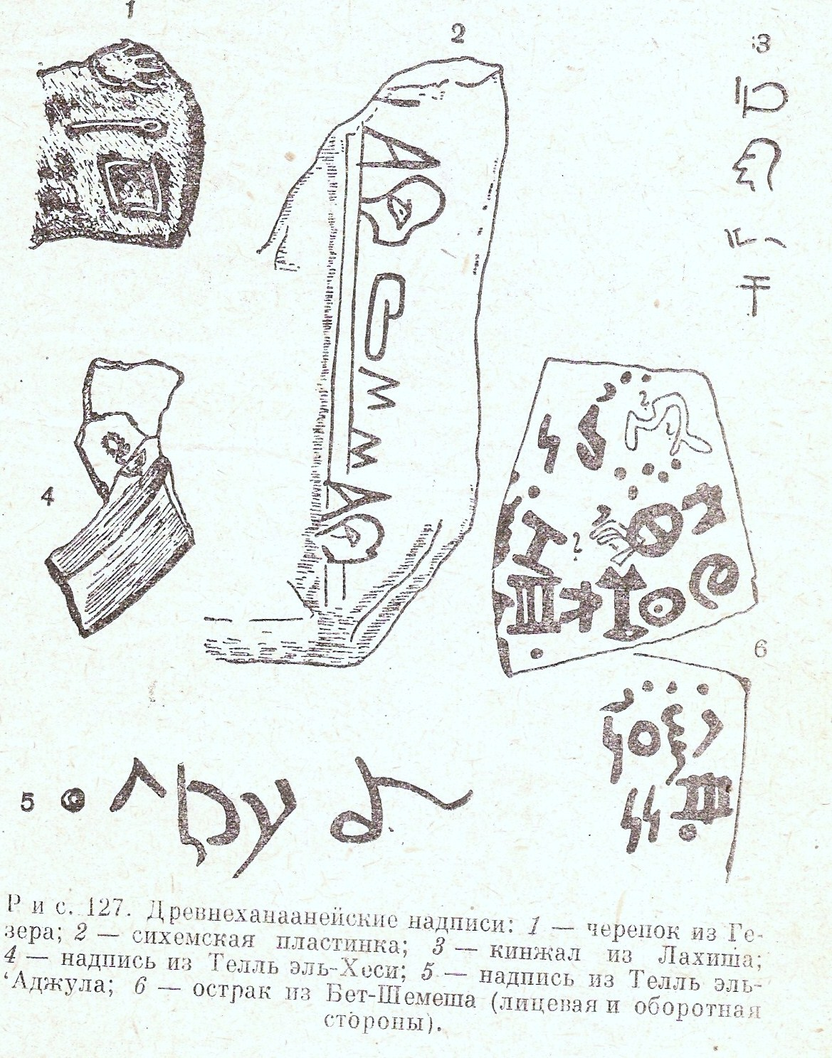 Images of proto-canaan (not sinai) writing